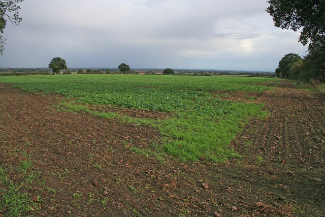 Stoke Field According to popular theory this is the position of the Yorkist Troops at the beginning of the Battle of Stoke Field in 1487. This was the final battle of the Wars of the Roses and was the last ditch attempt of the Earl of Lincoln (Richard III's named successor), and Lord Lovell to over throw Henry VII from the throne. Henry had been declared King of England after the battle of Bosworth in 1483. See 50085